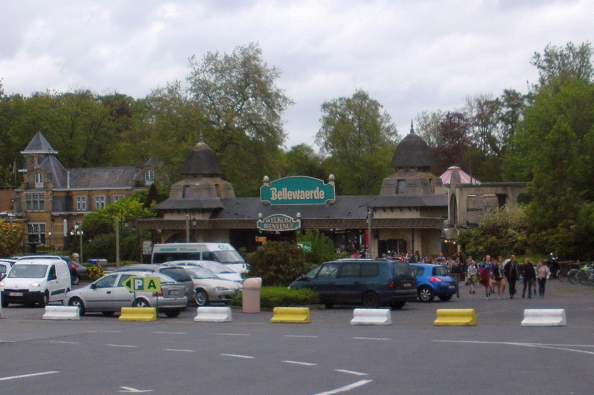 entrance to Bellewaerde amusement park near Ieper